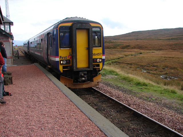 Corrour Station, Scotland. A train for Fort William and Mallaig approaches the station.